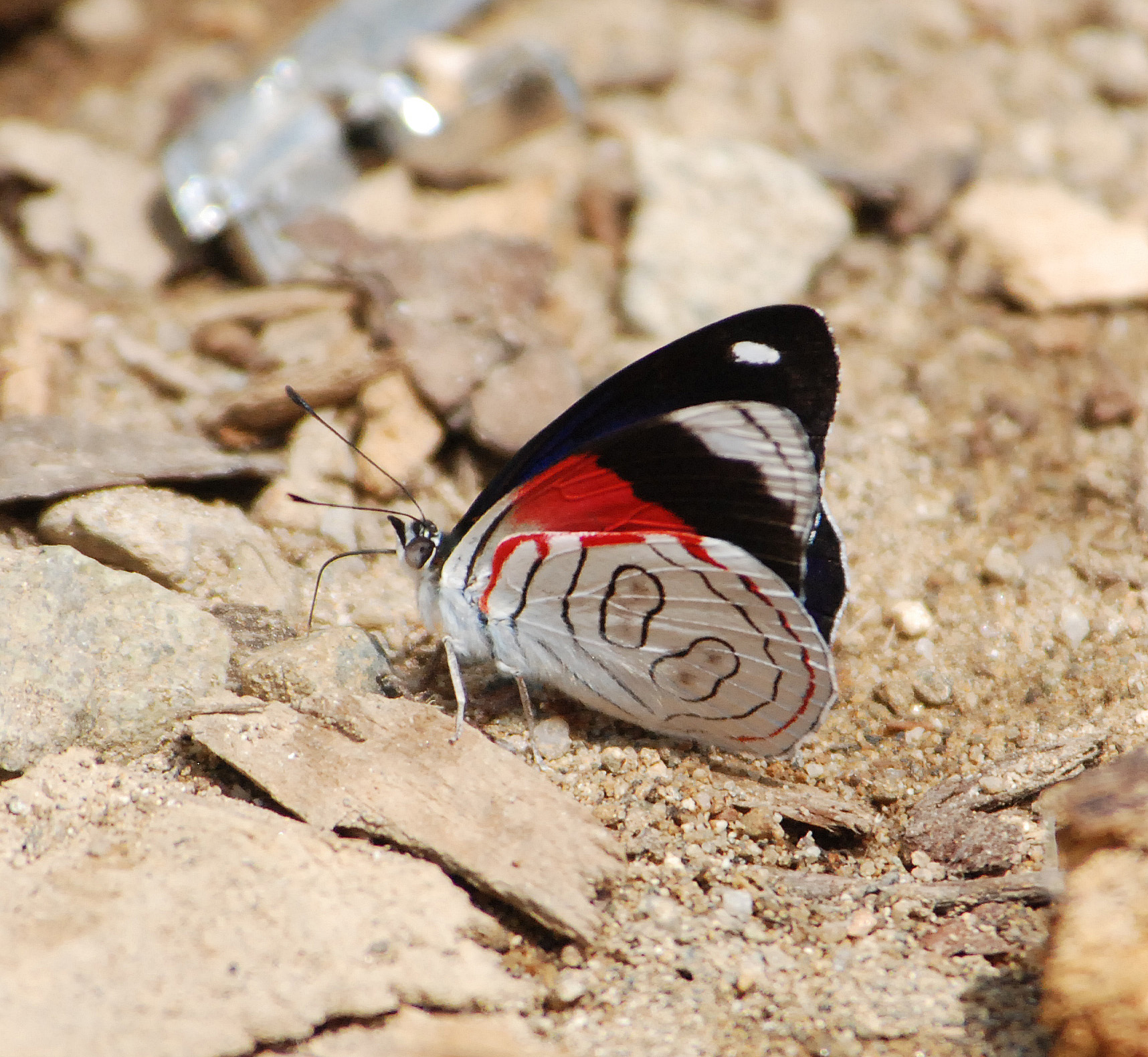 Faded Eighty-eight/Navy Eighty-eight at La Soledad, San Pedro el Alto, Oaxaca, Mexico, 080328. Diaethria astala.